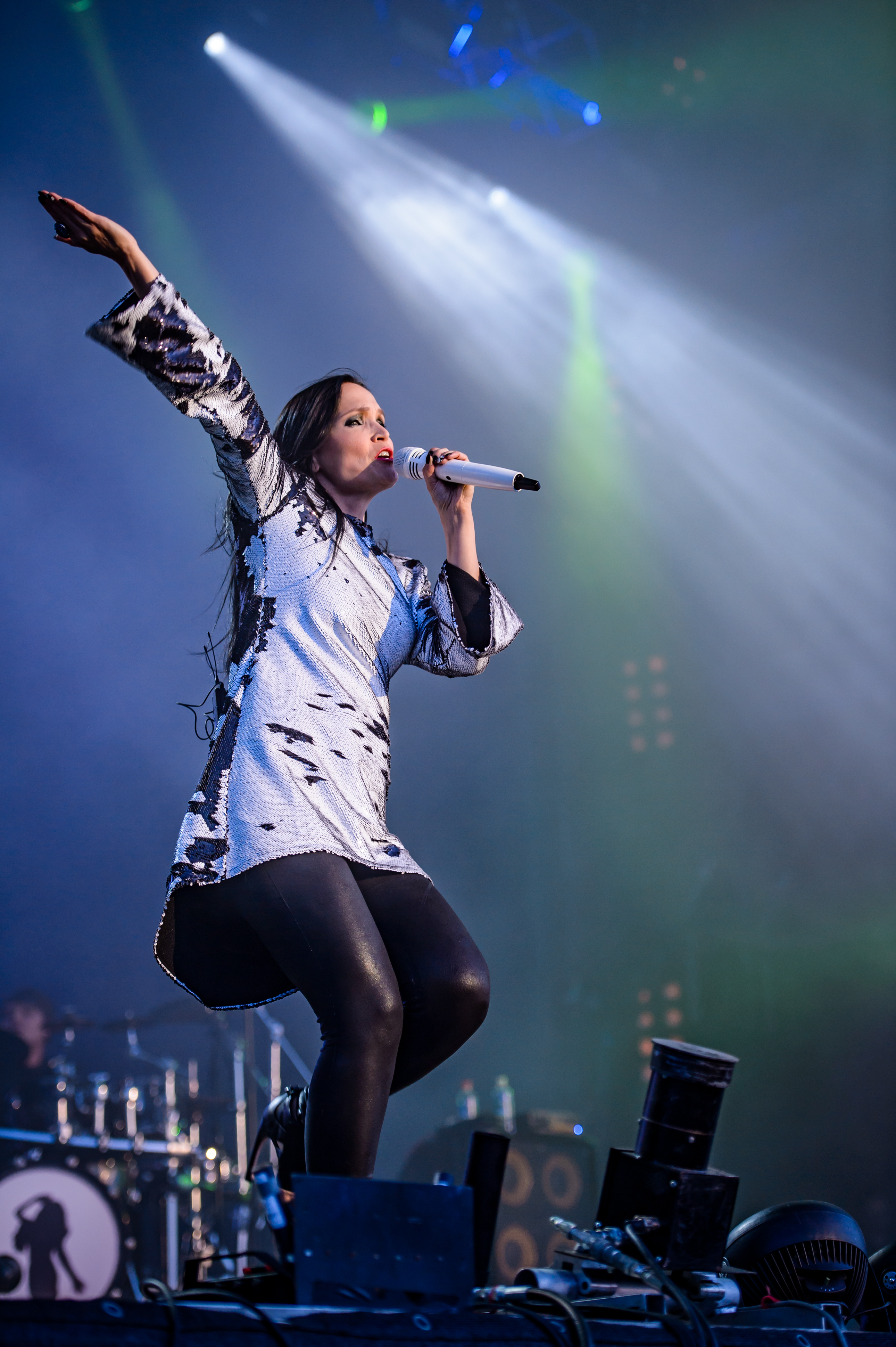 Tarja Turunen; Wacken Open Air 2016